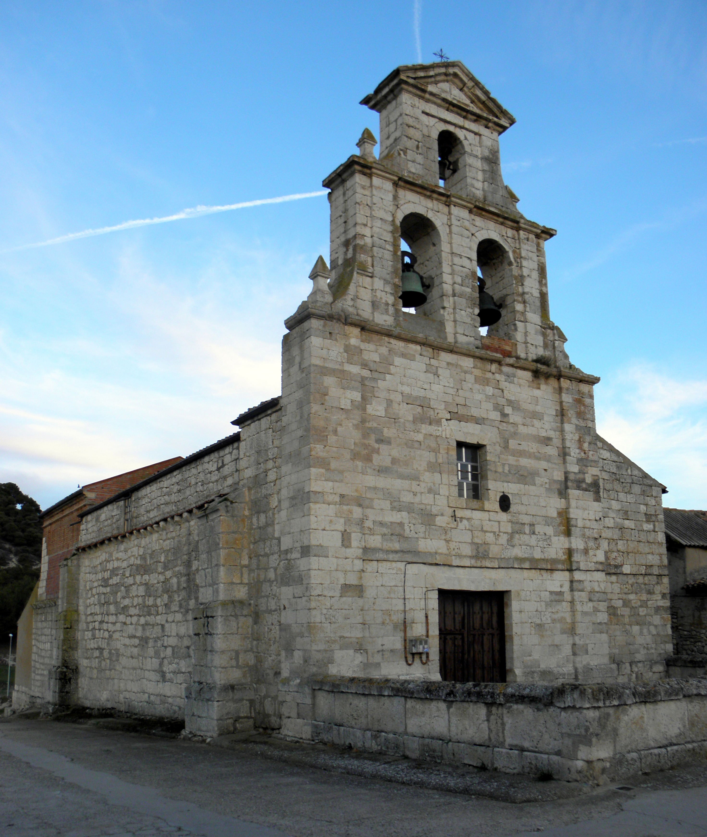 Church of la Asunción, San Pelayo, Valladolid, Spain.